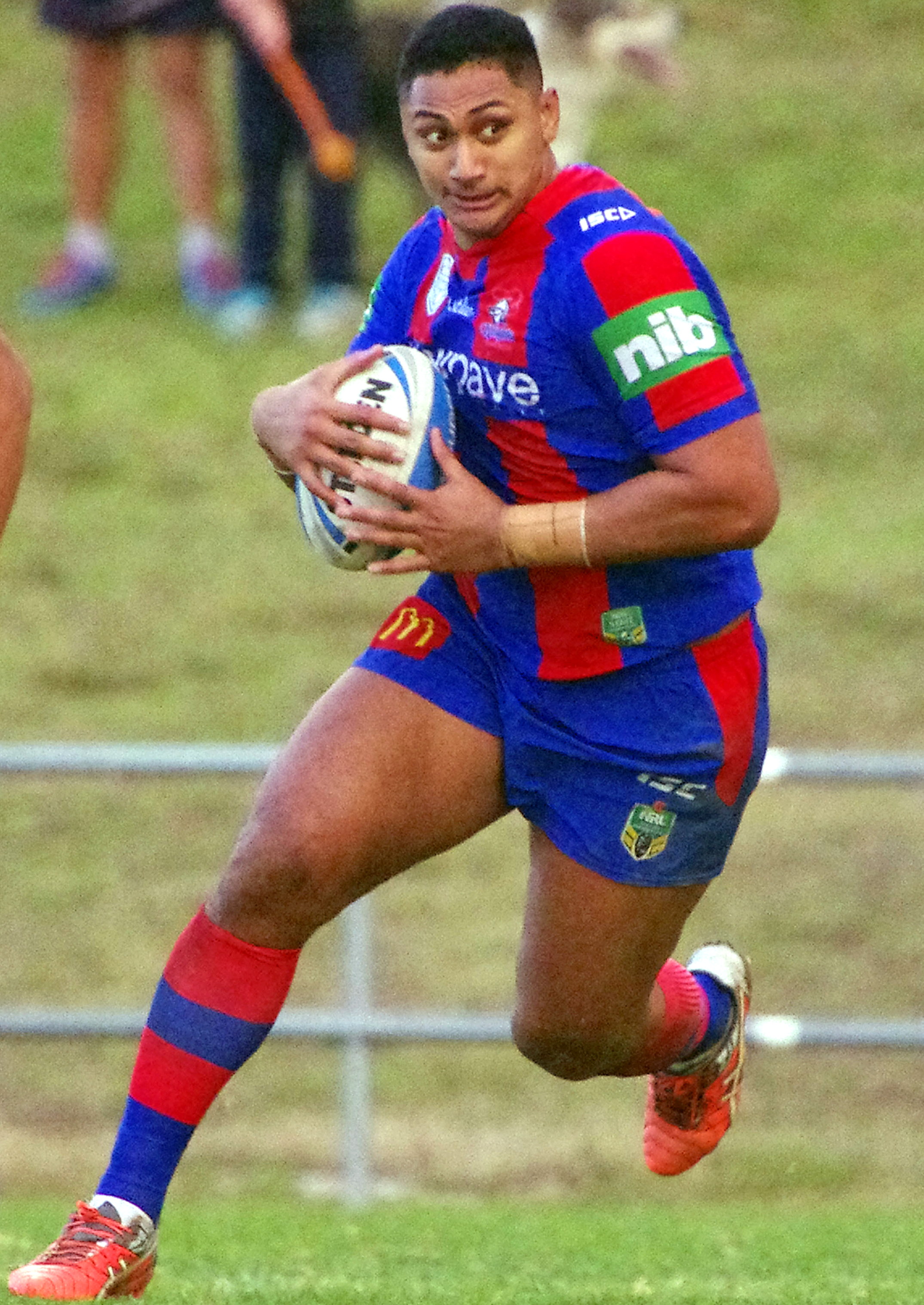 Pauli Pauli